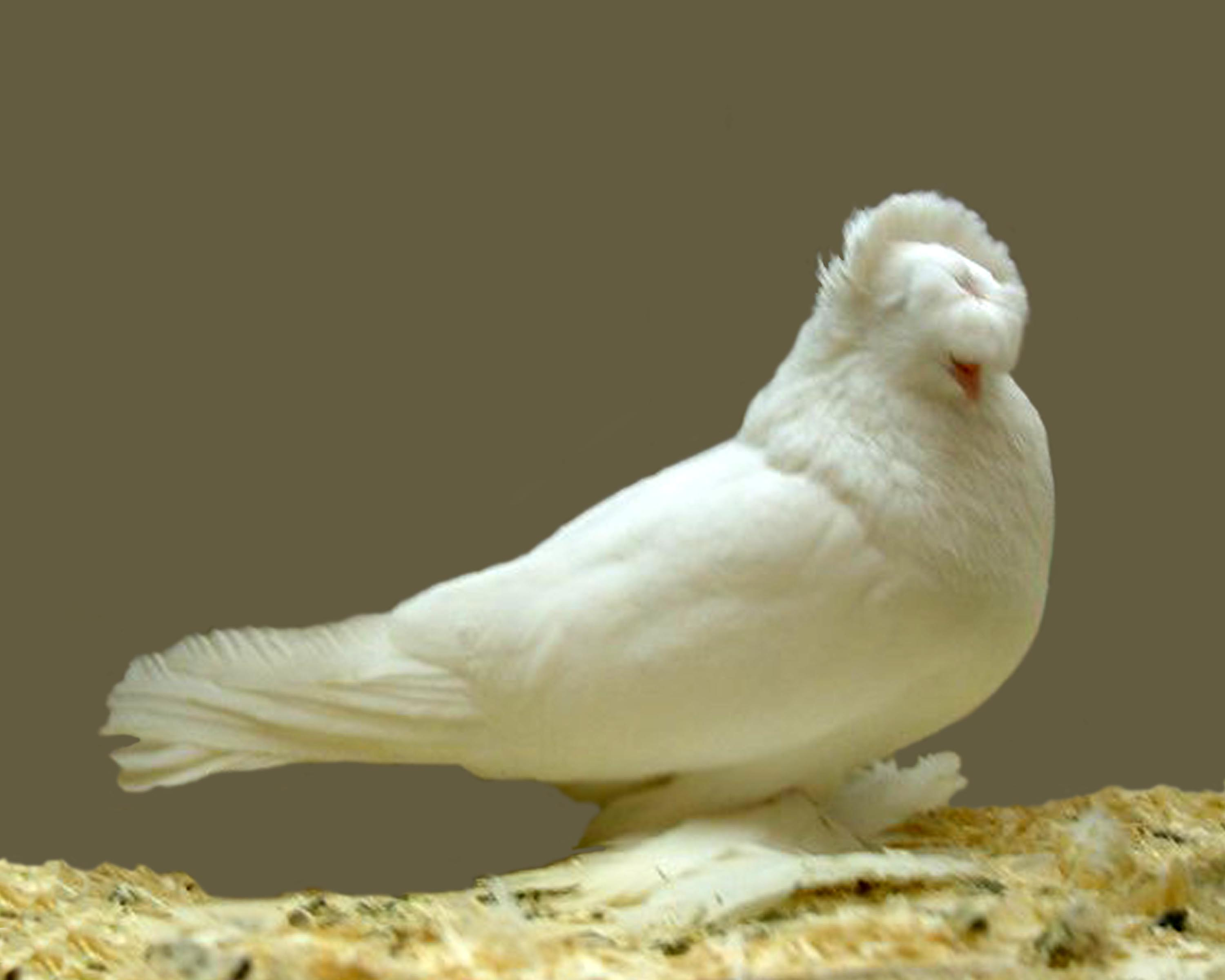 German Double Crested Trumpeter, white self